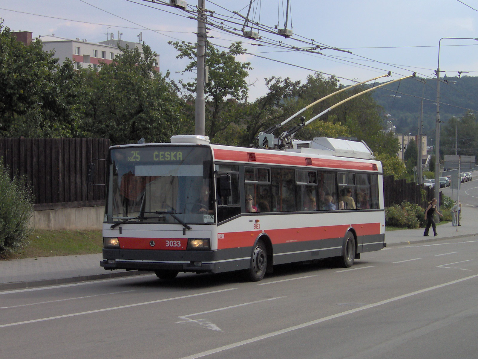 Škoda 21Tr trolleybus in Brno